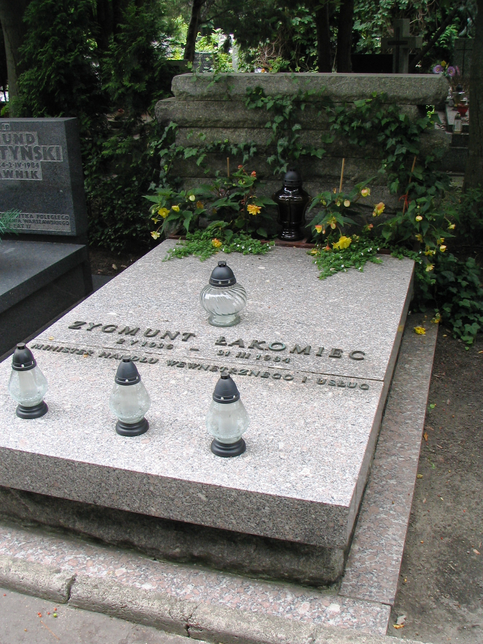 Grób Zygmunta Łakomca